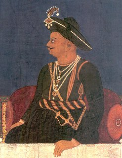 Tipu_Sultan, Fath Ali Khan